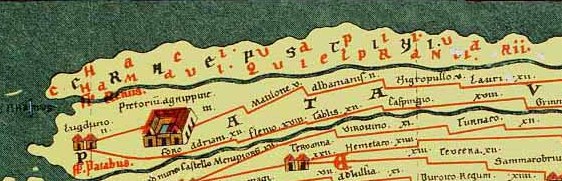 Table of Peutinger detail (Conradi Milleri's copy, 1887-1888). The rivers Rhine (fluvius Renus) and Meuse (fluvius Patabus) are represented with some old towns like Tournai (Turnaco) and Cassel (Castellum Menapiorum).